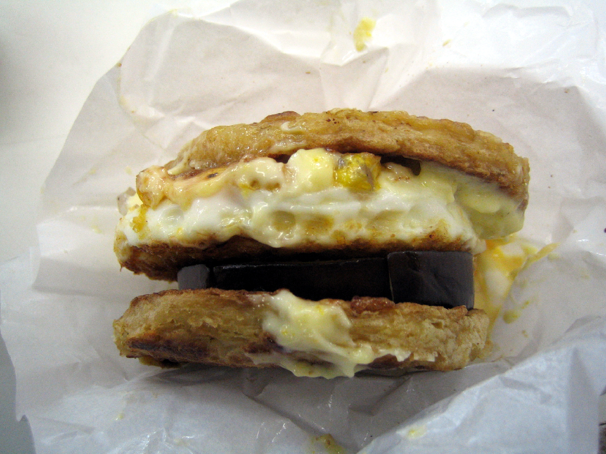 Tosa-ishin-burger, being sold at Nangoku service area. (note: does not appear to have any hamburger in it, so its not a hamburger, some form of sandwich)